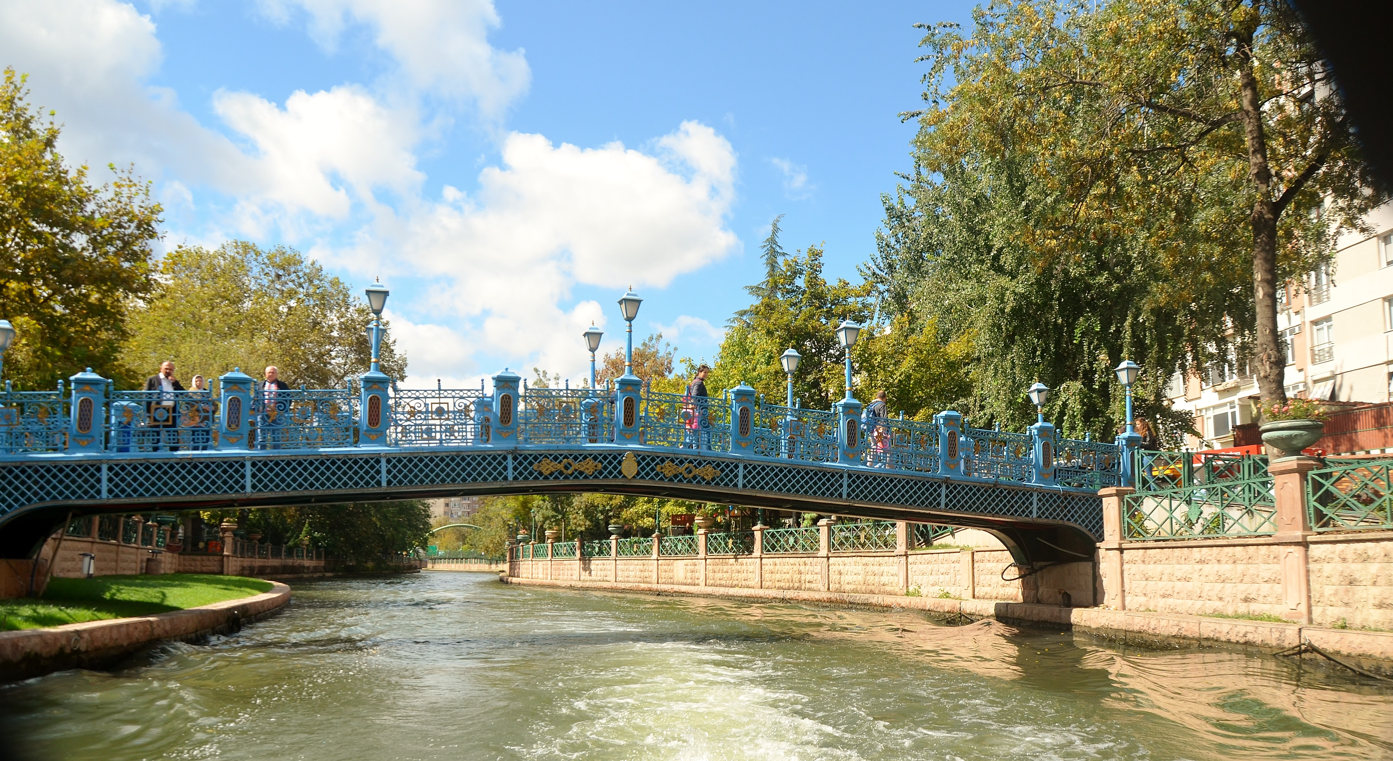 Bridge over Porsuk River in Eskişehir, Turkey